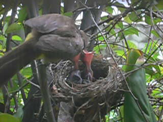 A brown shrike is feeding its chicks.